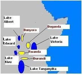 Lake plateau states